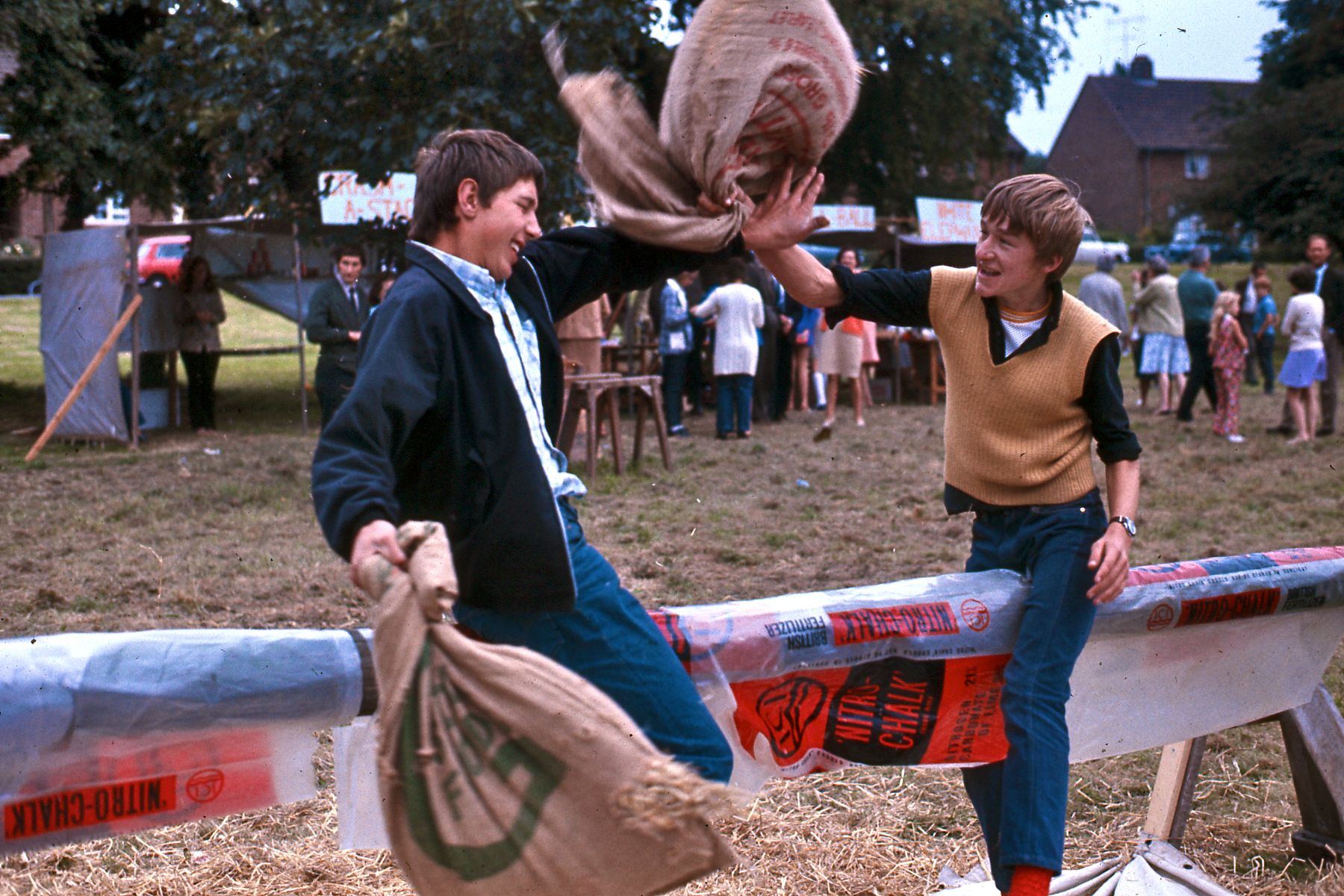 Two young men, seated on a crossbar, engage in a pillow fight at an English country fair. Other information Photo by George Garrigues.